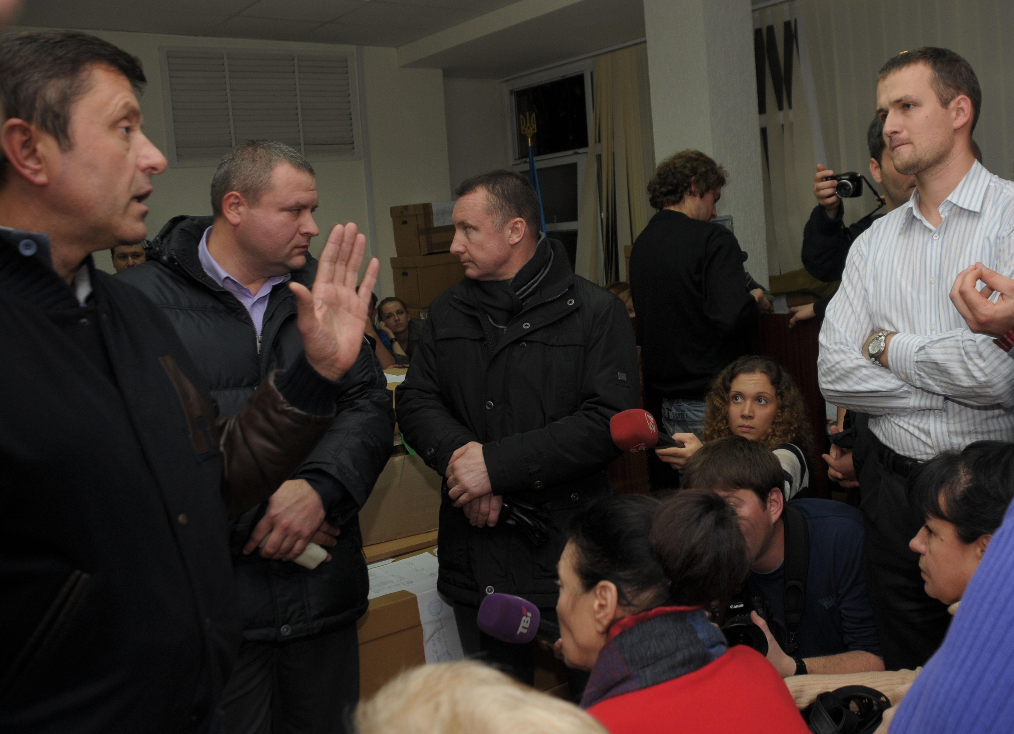 Viktor Pylypyshyn and Yuriy Levchenko, parliamentary candidates, in the building of the election committee of the 223th constituency during 2012 Ukrainian parliamentary election